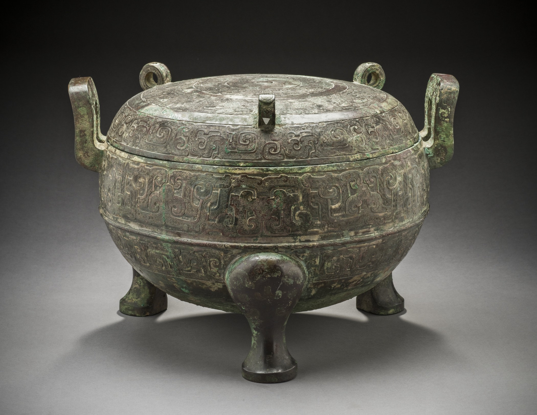 China, Shanxi Province, ancient state of Jin, Mid. Eastern Zhou dyn., late Spring and Autumn per. or early Warring States per., about 500-450 B.C. Furnishings; Cookware Cast bronze Gift of Mr. and Mrs. Eric Lidow (M.74.103a-b) Chinese Art